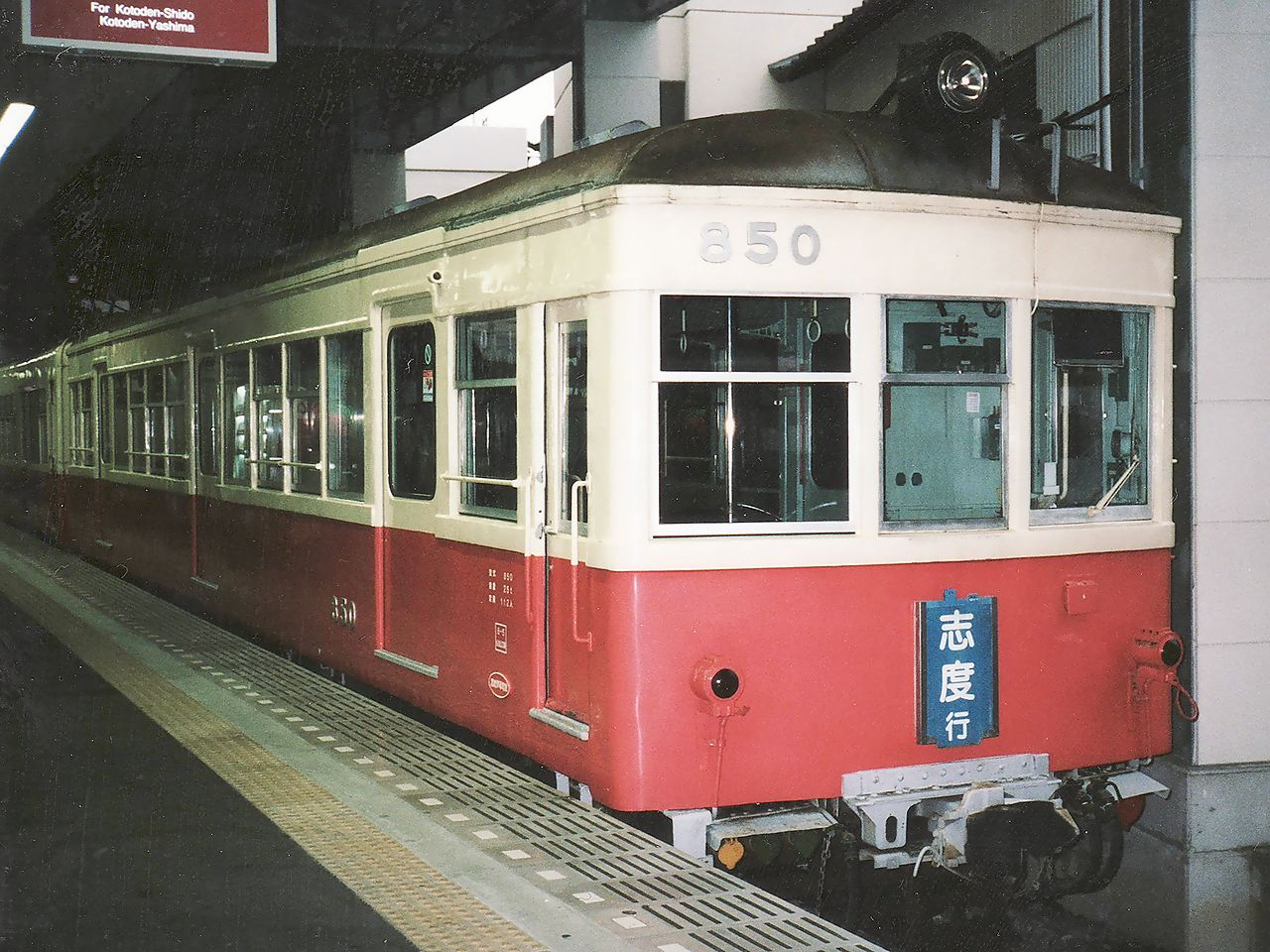 Company:Takamatsu-Kotohira Electric Railroad Type:EMU Type850 Number:850 Place:at Kawaramachi Station, Takamatsu City, Kagawa, Japan. Scanned from negative color print